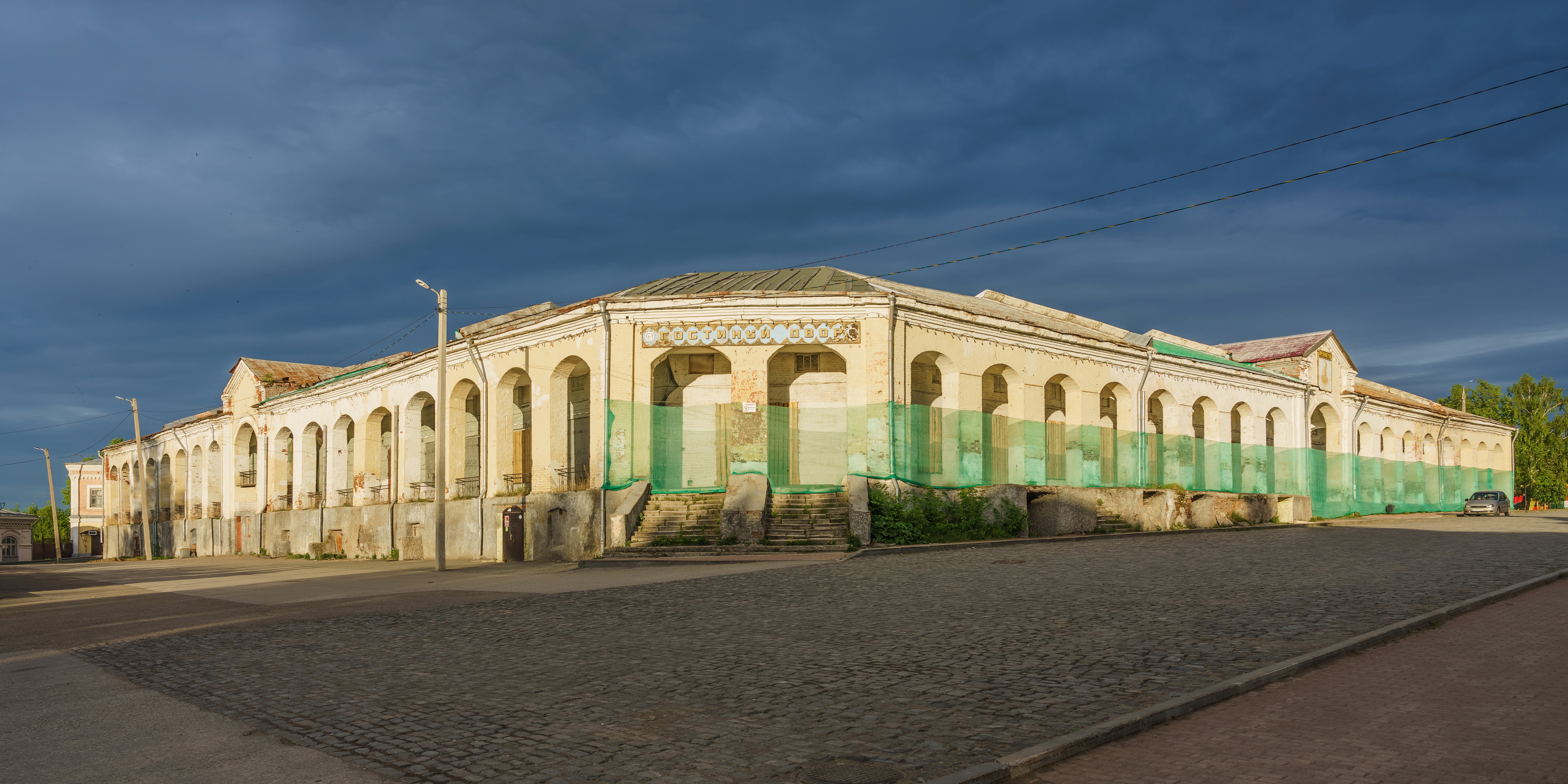 Ensemble of Cathedral Square (Trade Rows) in Kungur, Perm Krai, Russia